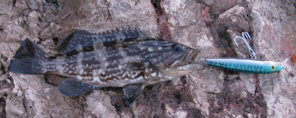 Juvenile Mycteroperca rubra caught near Herzlia (Israel).